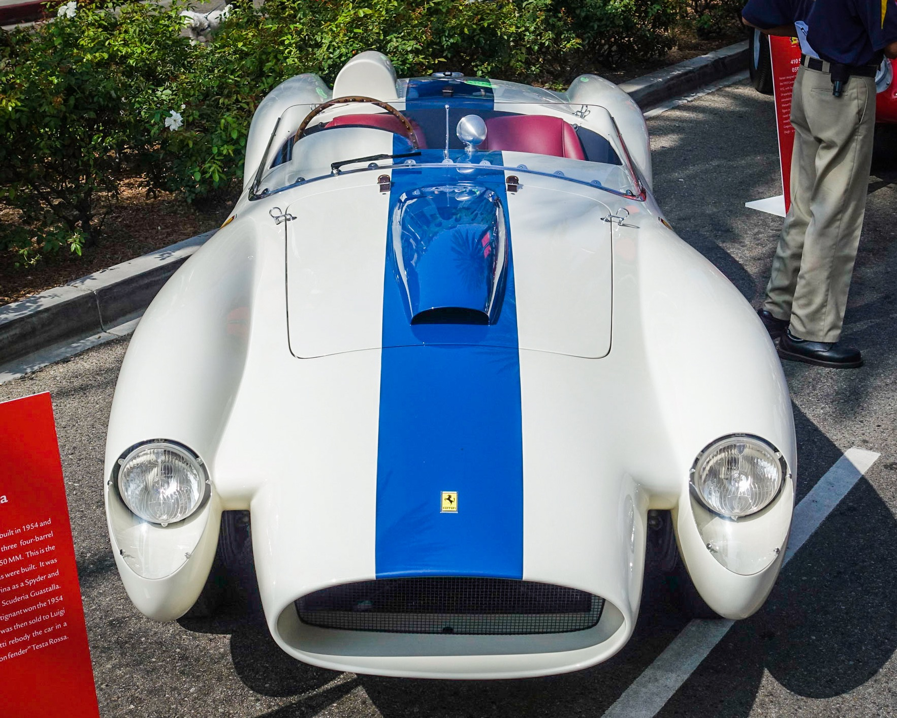 The original Ferrari Monza was built in 1954 and used a V12 engine with three four-barrel carburetors derived from the 250MM. THis is the second of the four 250 Monzas built. It was originally bodied by Pinin Farina as a Spyder and sold to Franco Cornacchia's Scuderia Guastalla. Luigi Piotti and Maurice Trintignant won the 1954 12 Hours of Hyeres in this car. It was then sold to Luigi Chinetti, who had Scaglietti rebody the car in a style similar to the "pontoon fender" Testa Rossa, which is alleged to have been an inspiration for the design of Speed Racer's Mach Five.